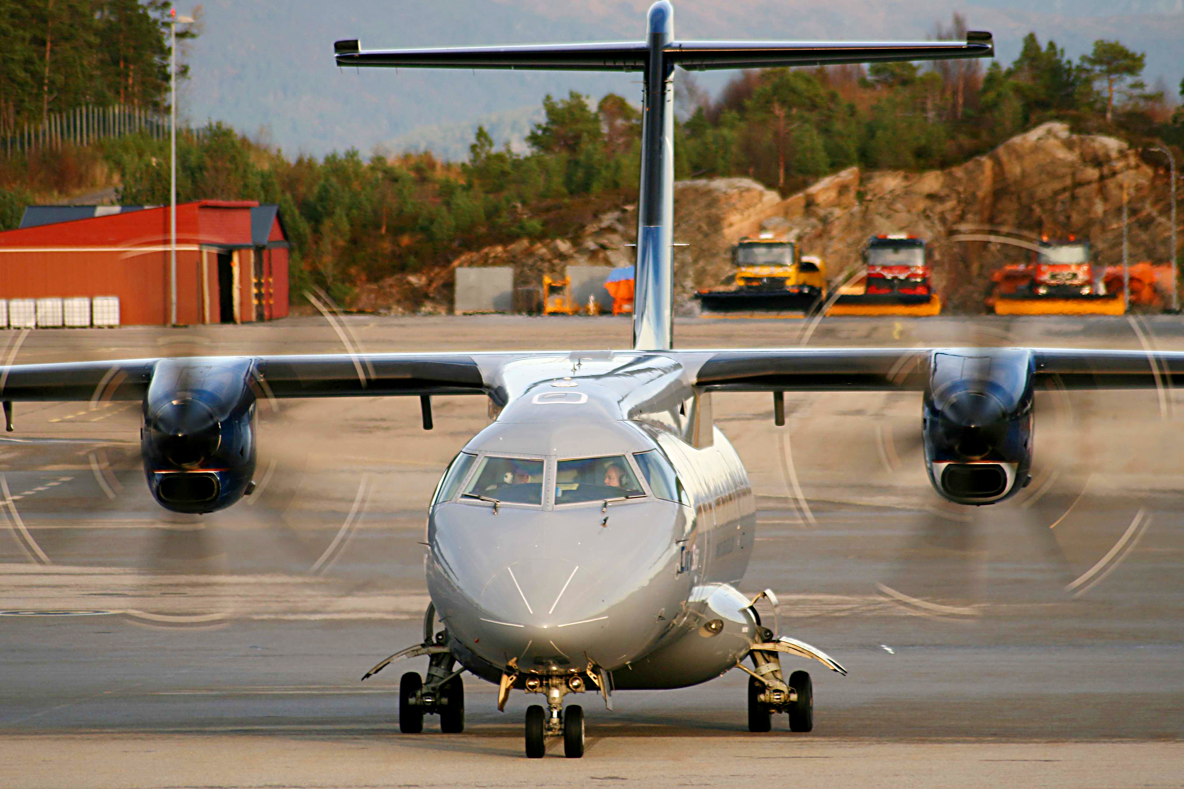 City Star Airlines